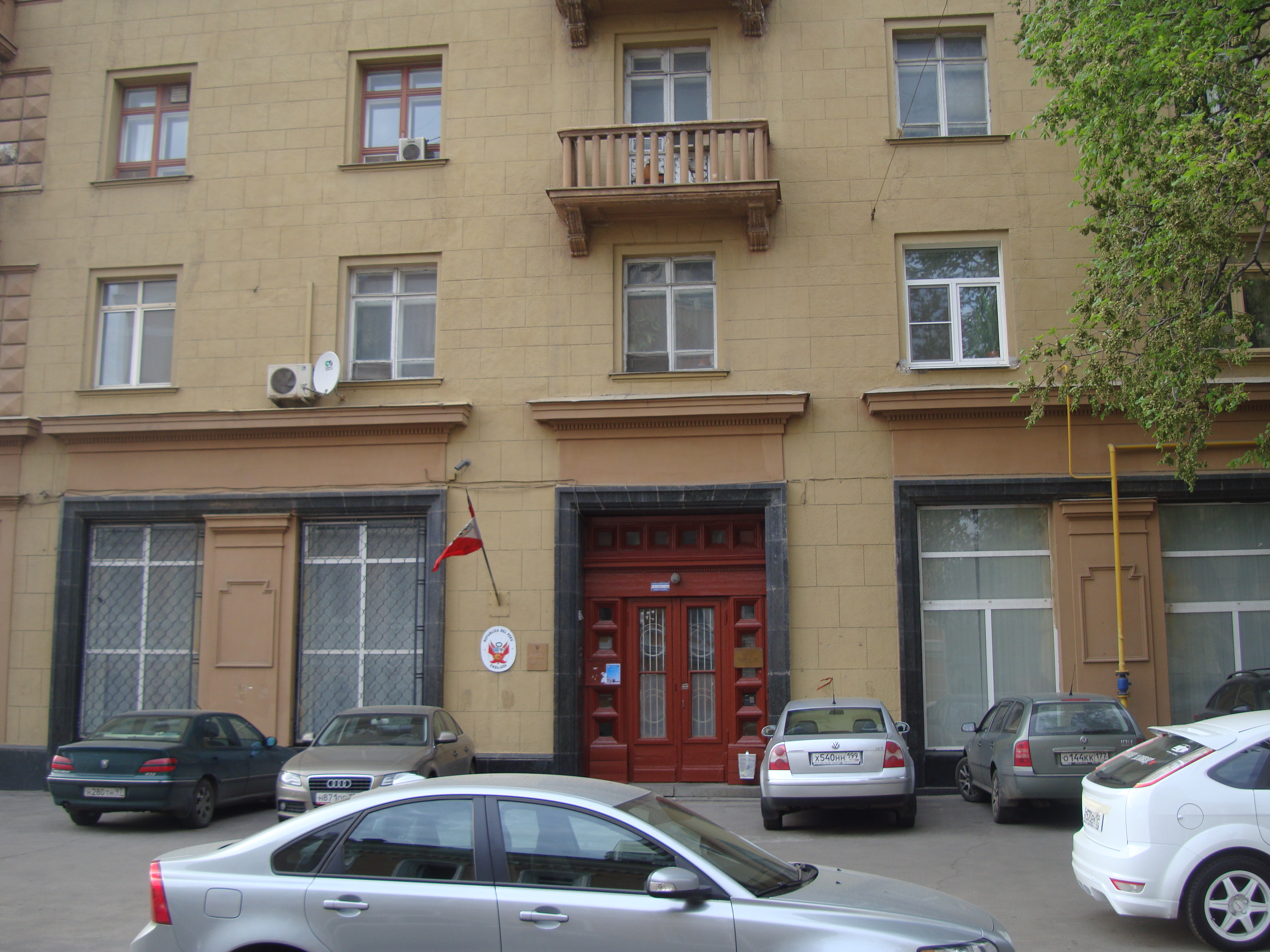 22/14 Smolenski avenu, Khamovniki District, Moscow, Russia. Former Embassy of Peru.